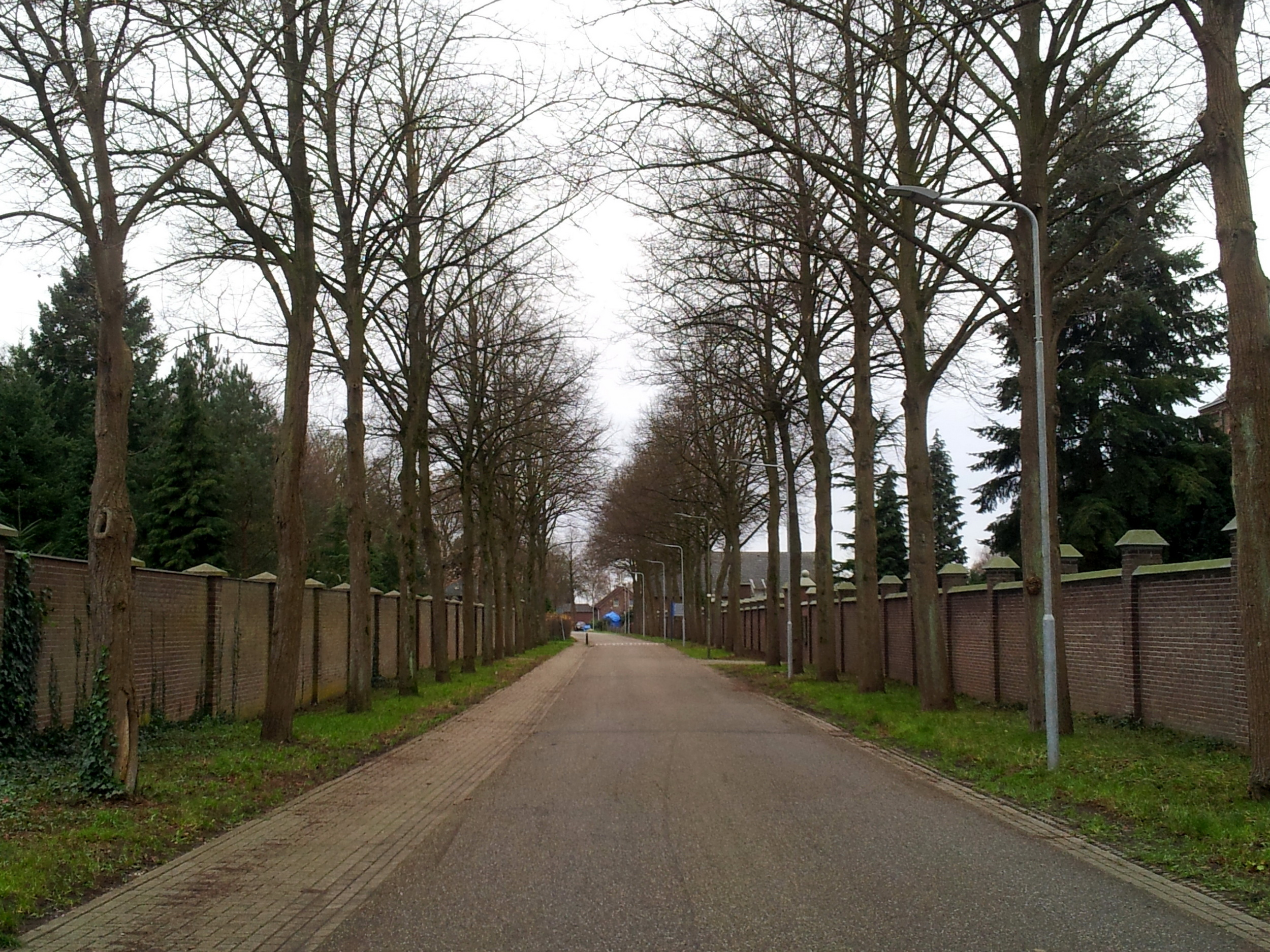 View of Kloosterstraat in Steyl, Limburg, the Netherlands. Left and right are garden walls of the Monastery of the Holy Ghost, the mother house of the RC Congregation of the Servants of the Holy Spirit of Perpetual Adoration (Servae Spiritus Sancti de Adoratione Perpetua; SSpSAP).